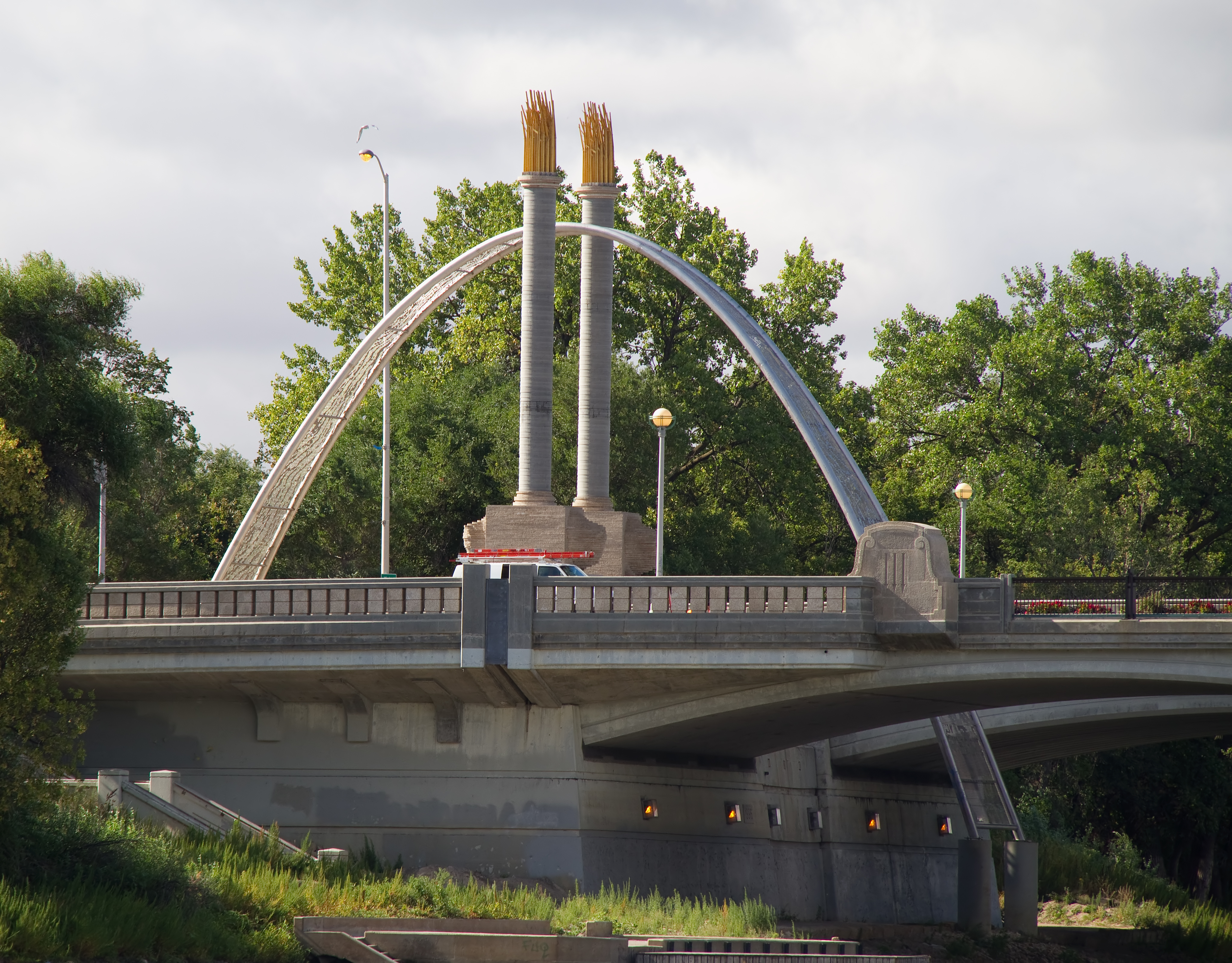 Norwood Bridge Sculpture